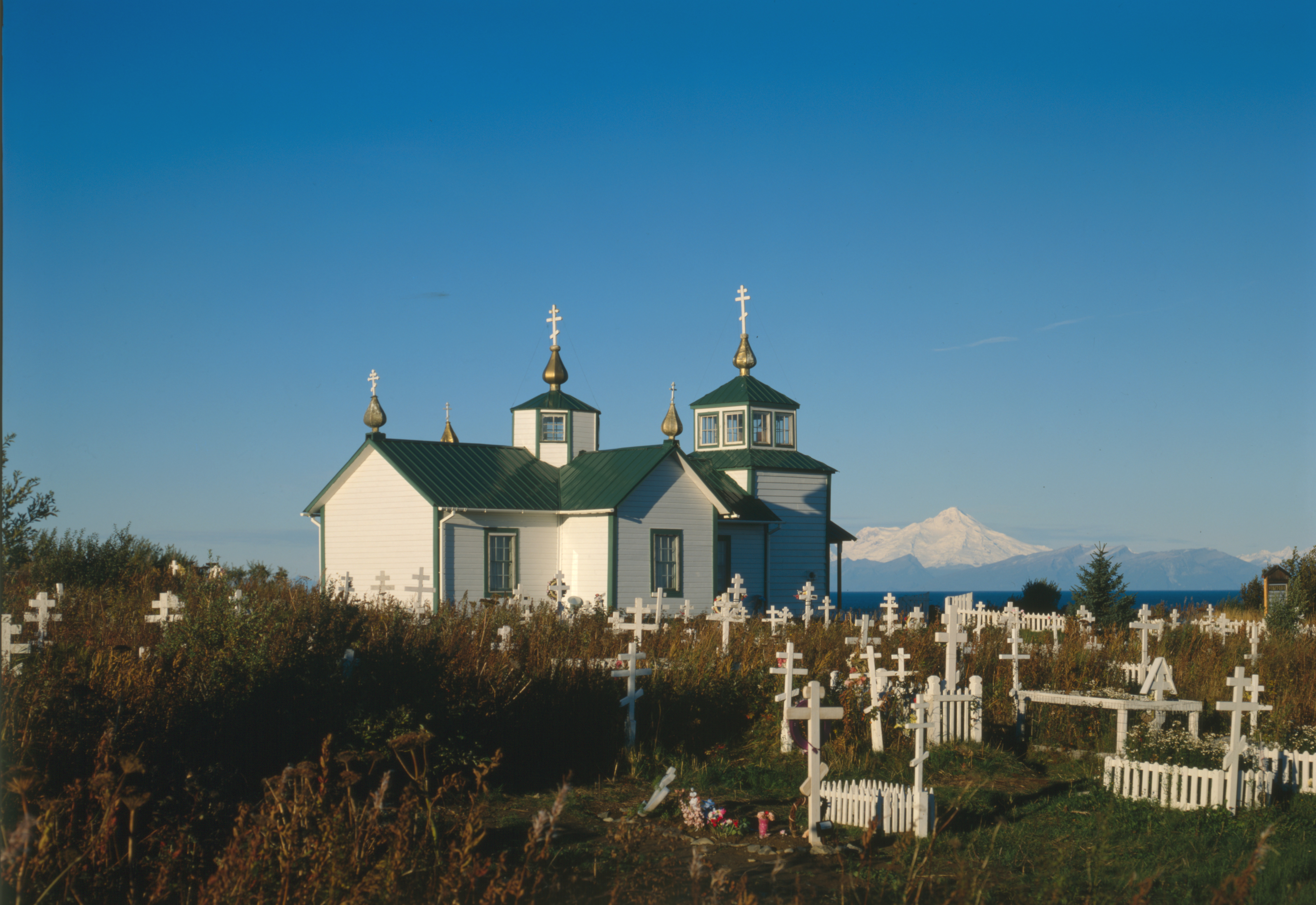 Eastern and northern sides of the Holy Transfiguration of Our Lord Church, located along the Sterling Highway in Ninilchik, a city in the Kenai Peninsula Borough of the U.S. state of Alaska. Built in 1901, it is listed on the National Register of Historic Places.